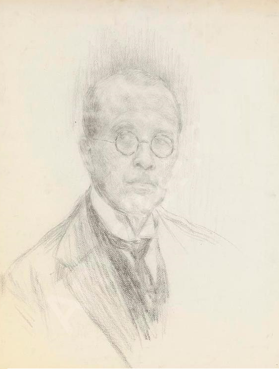 Selfportrait